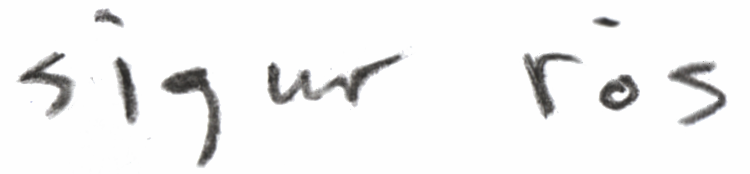 Reproduction of logo 2008 of Sigur Rós